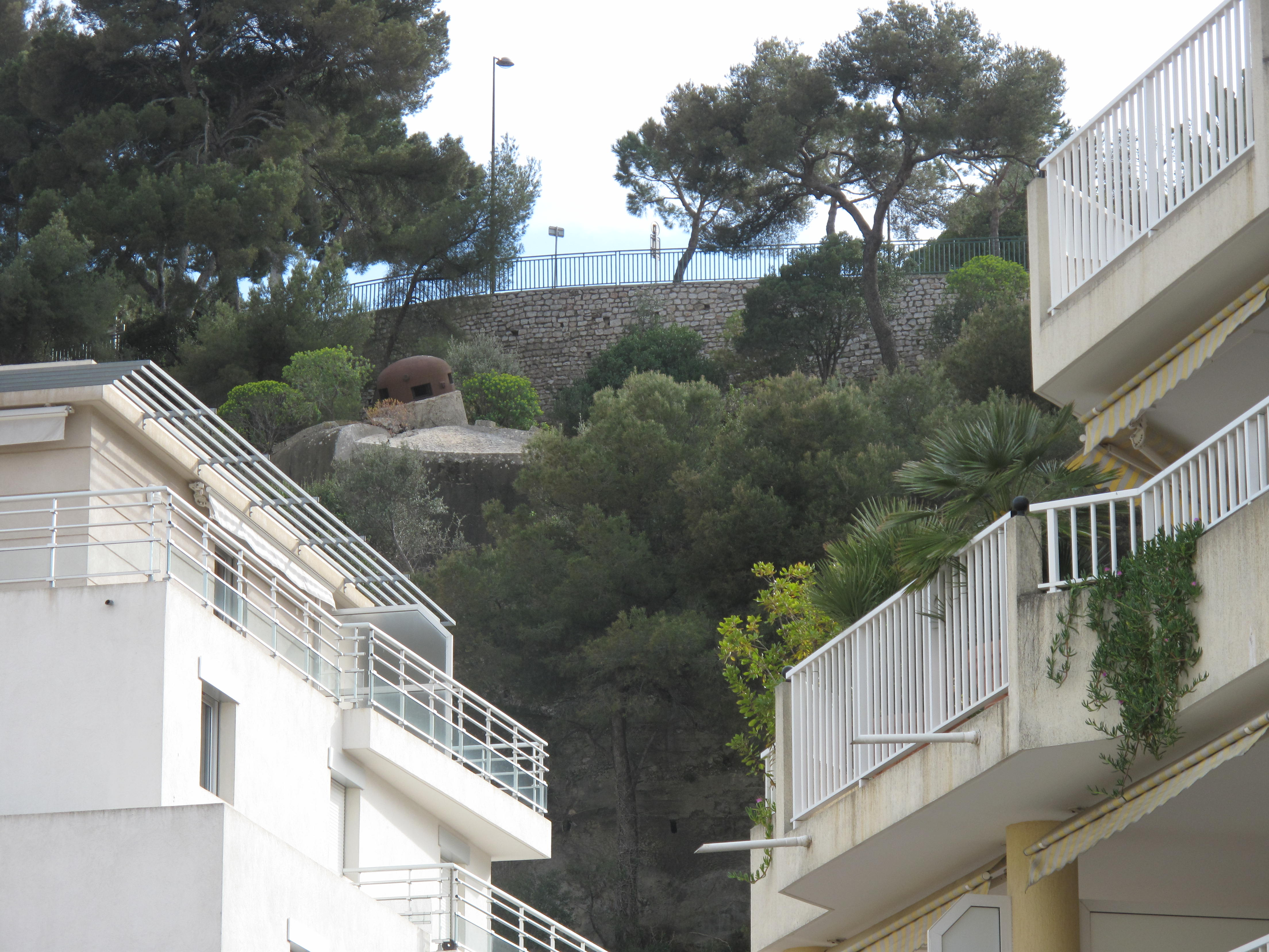 Partial view of the maginot bunker of Cap-Martin (Alpes-Maritimes, France). It is now surrounded by modern buildings.